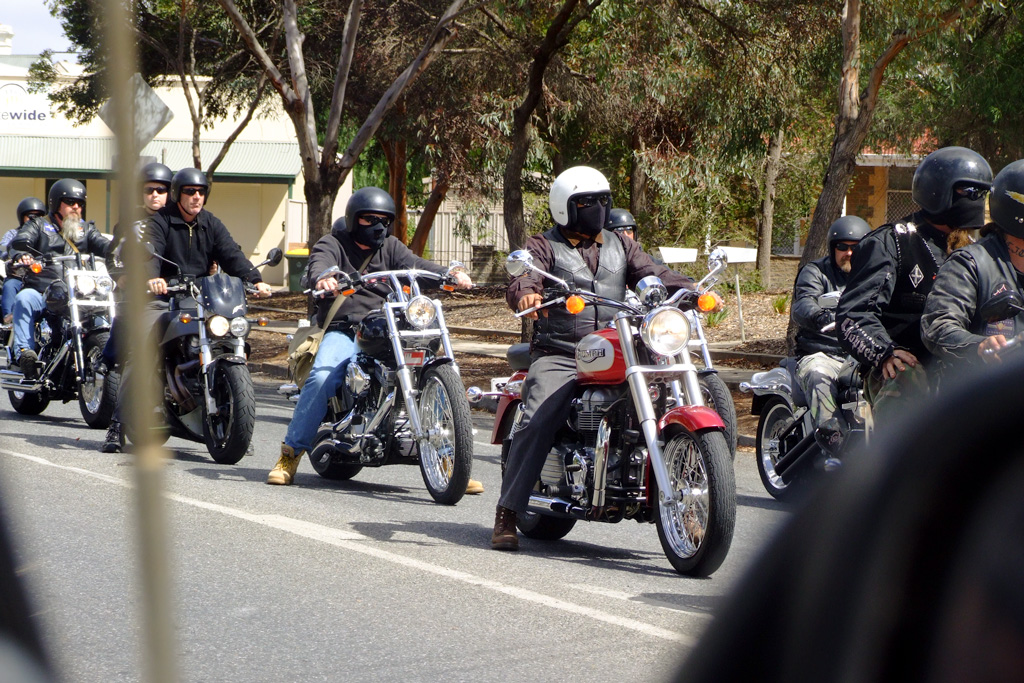 Gawler, South Australia. Gypsy Jokers Poker Run, Protesting the Right to Associate that has been taken away by the state govt. The laws do not only infringe on the rights of these groups, but should raise concern when a man is given the power to enfore his likes or dislikes. Bikies, right or wrong have a right to associate. There are other laws that deal with consorting, associating with a know criminal, etc. Mr. Rann, the potter, appear to have personal reasons for his attack on blonde Girls. Maybe he should not hide behind some false front that he can stop drugs and crime, even his own police force has its crime rate. He has brought out some of the most draconian laws. One cannot smoke in their vehicle if there are children in, may seem ok but wait, he also has tried to push legislation to make it illegal to smoke in your own home. This state has seen some of the sickest events in Australia's history, the last involving polies, police, magistrates, educators, known as the Family. They grabbed teen boys from the street and held them captive while perfoming all sorts of sick perverted acts on them while it was all being video taped and then disposed of the bodies. One lad had his rectum split in two by a bottle. Why hasn't Rann taken action against these groups. They are still alive today, and the case was dropped. As the various club leaders said, they are not going to force bikies out, they will always be here. I support the bikies 100%, especially after the treatment I received from the cops for taking photo's as I was coming close to the meeting place in my car.